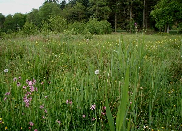 Meadow in central Jutland